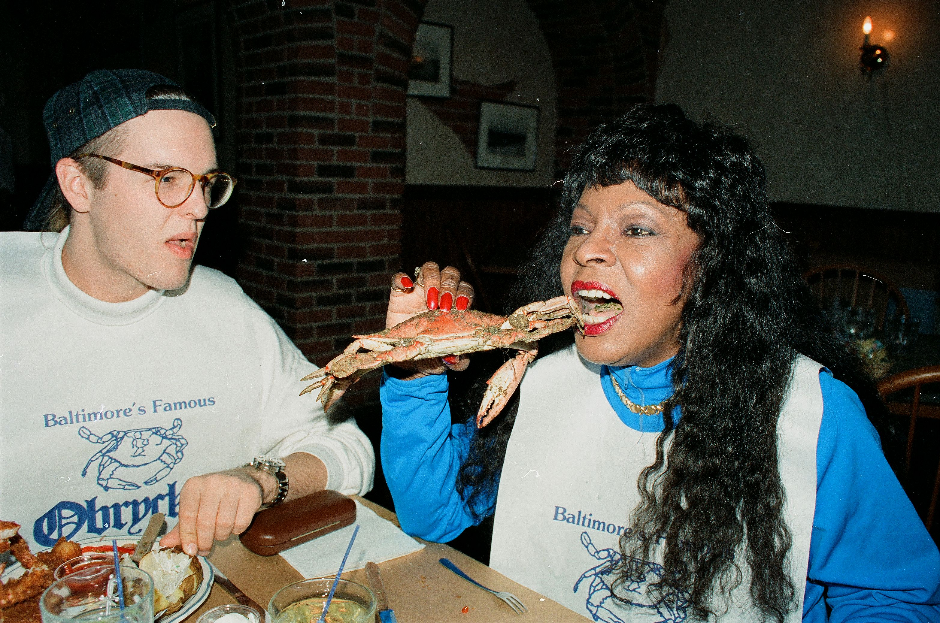 From Obrycki's crab house Baltimore M.D. 1996